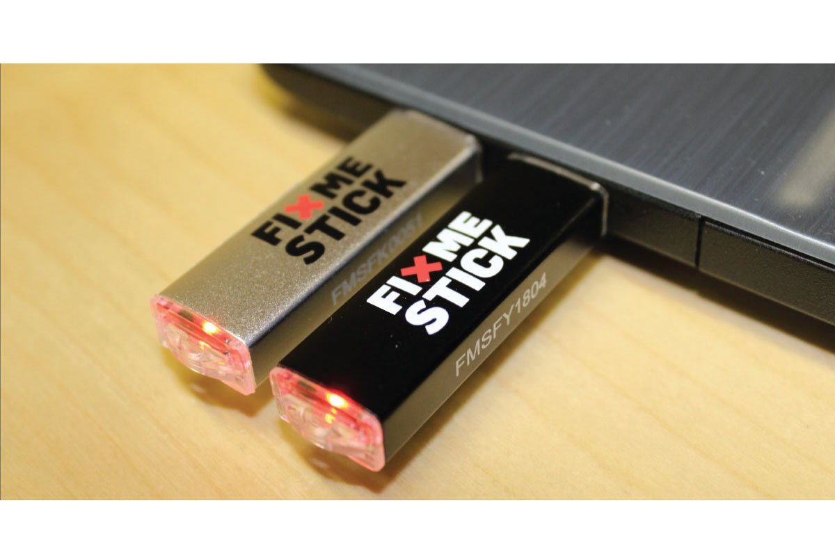 An image of the Mac and PC versions of the FixMeStick.